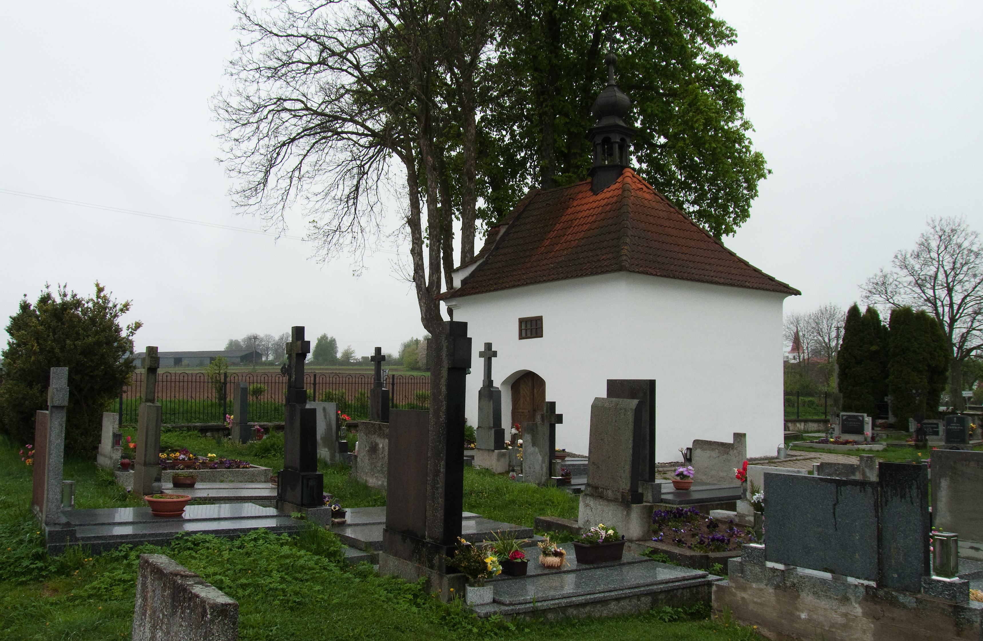 Chapel in Hlasivo, Tábor district, Czech Republic